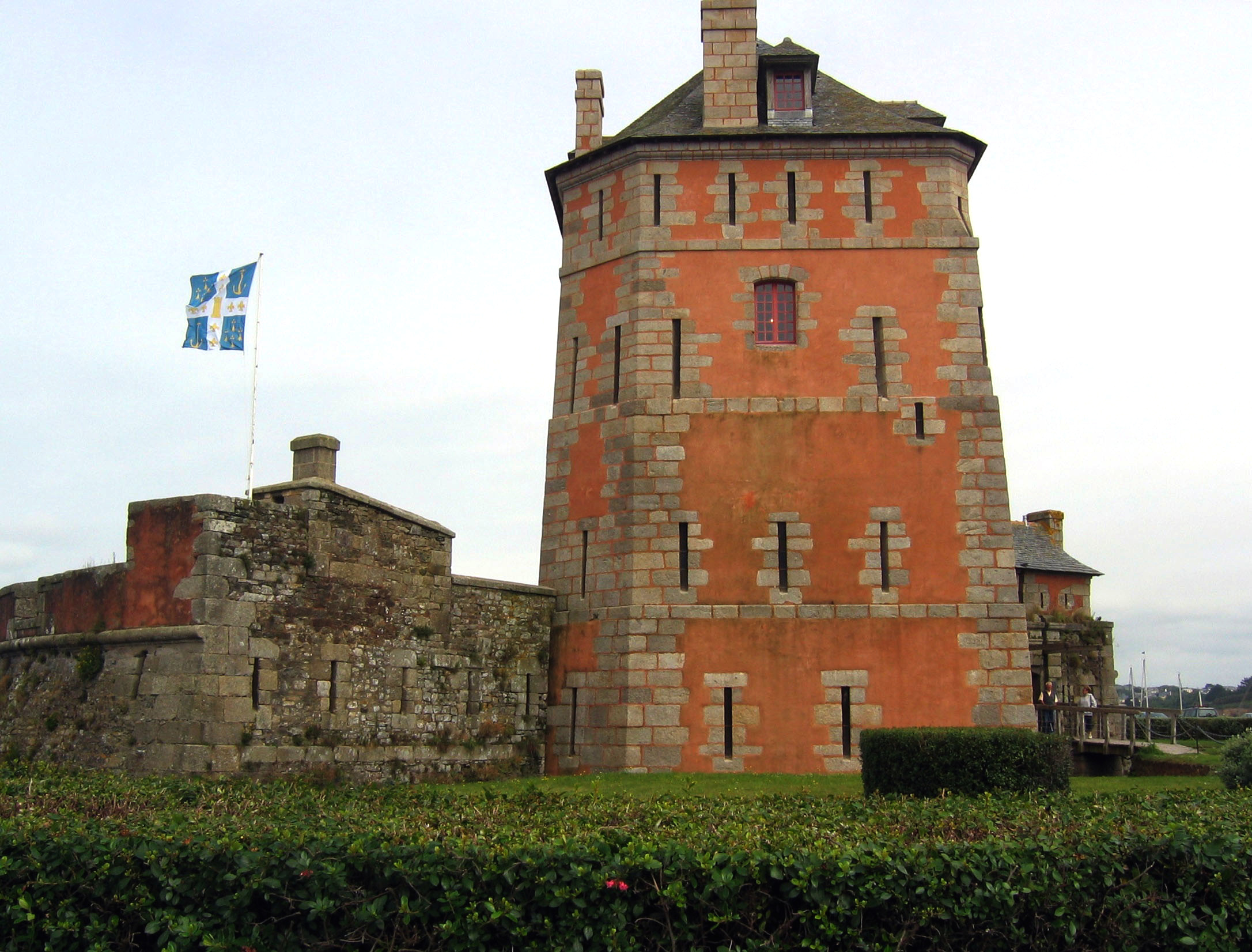 Vauban Tower, Camaret-sur-Mer